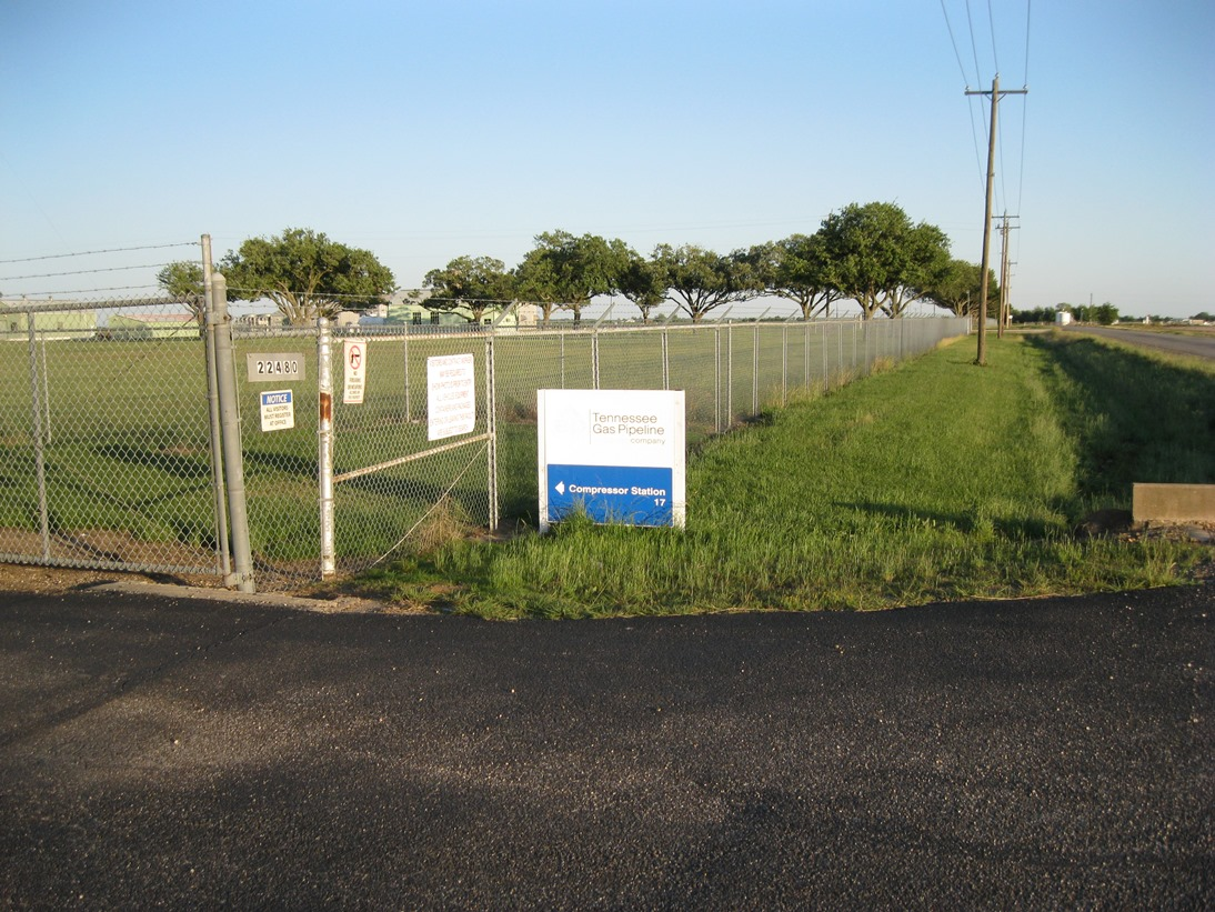 Photo shows the Tennessee Gas Pipeline Company compressor station on FM 1164 at the former site of Nottawa, Texas, which is 5 miles west of East Bernard. View is to the south-southeast.